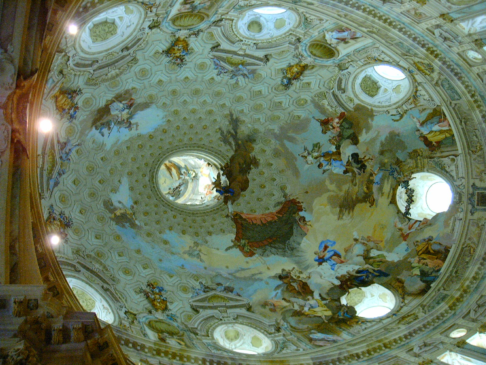 Santuario di Vicoforte (CN, Italy) - dome seen from interior